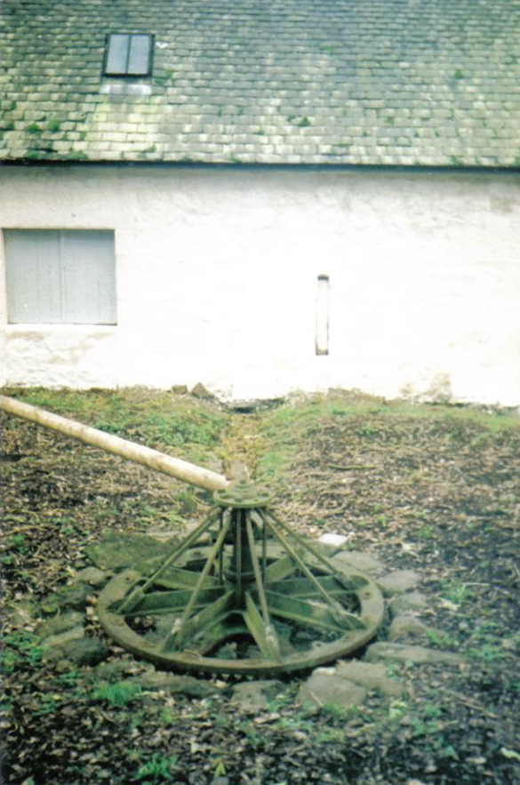 A rare survival of a cast-iron Horse Gin or Horse Engine at Wester Kittochside Farm near Glasgow